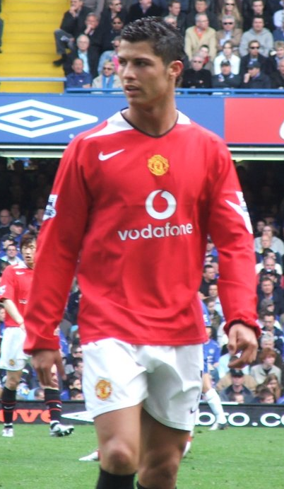 Cristiano Ronaldo; image cropped from Image:Ronaldo - Manchester United vs Chelsea.jpg and converted to PNG format.